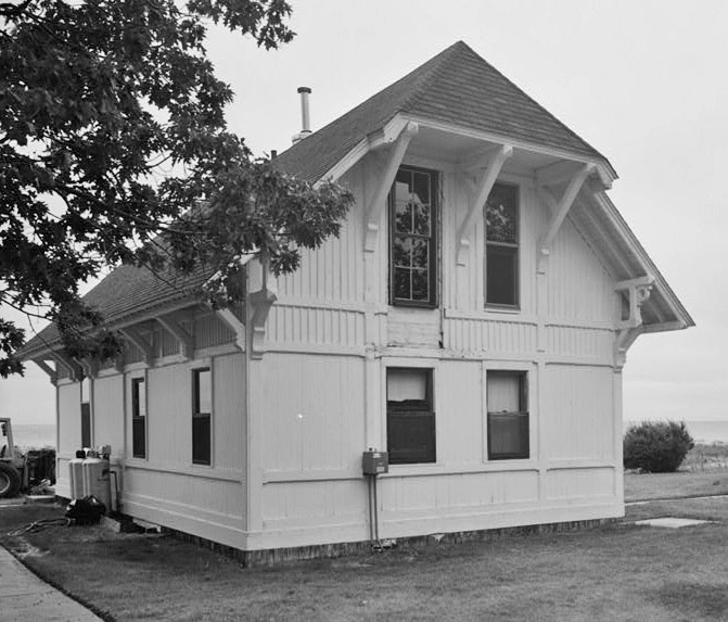 US Lifesaving Station, North Manitou Island - Boathouse NRHP #98001191